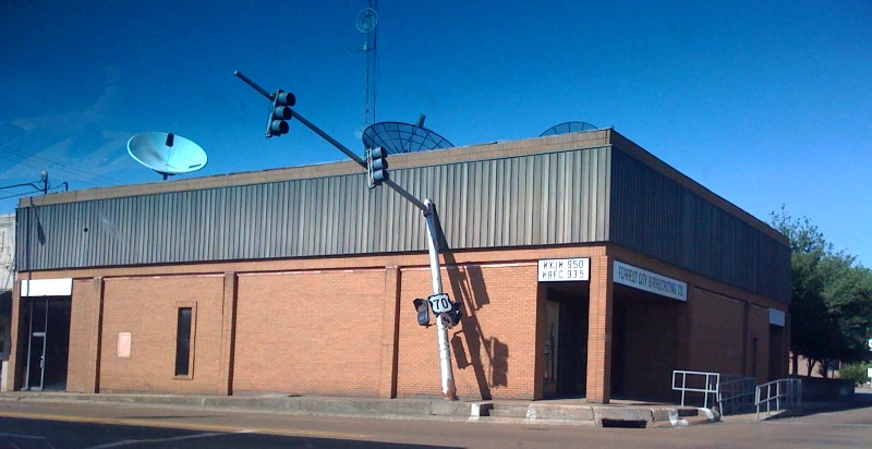 The headquarters of Forrest City Broadcasting Company in Forrest City, Arkansas, USA.